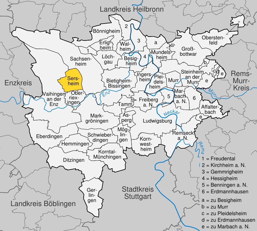 position of Sersheim within distict of Ludwigsburg, Baden-Württemberg, Germany